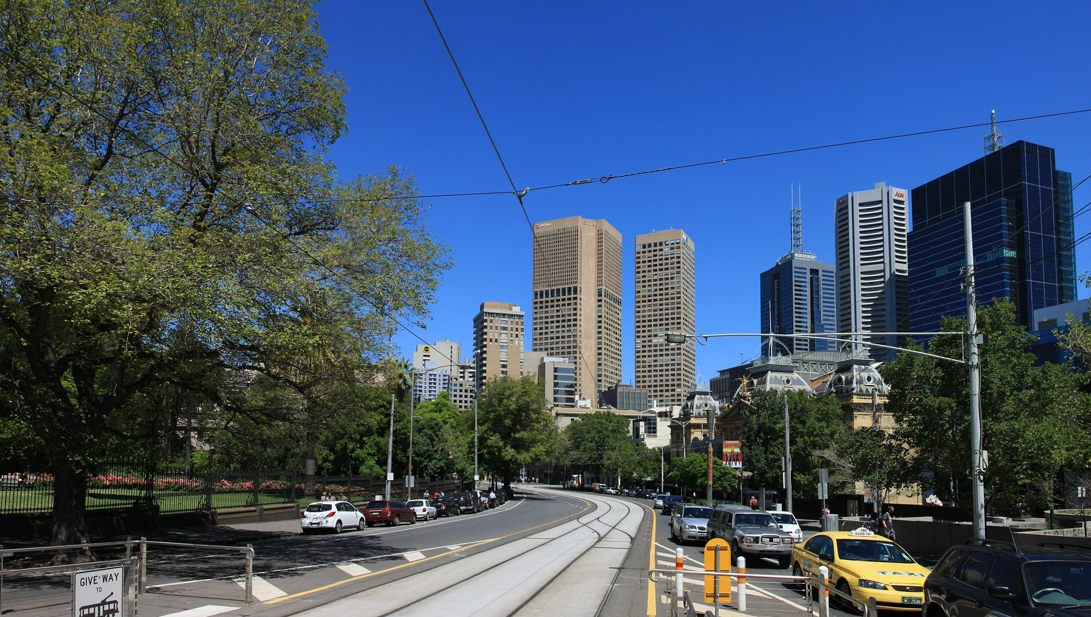 Flinders St train Station Melbourne